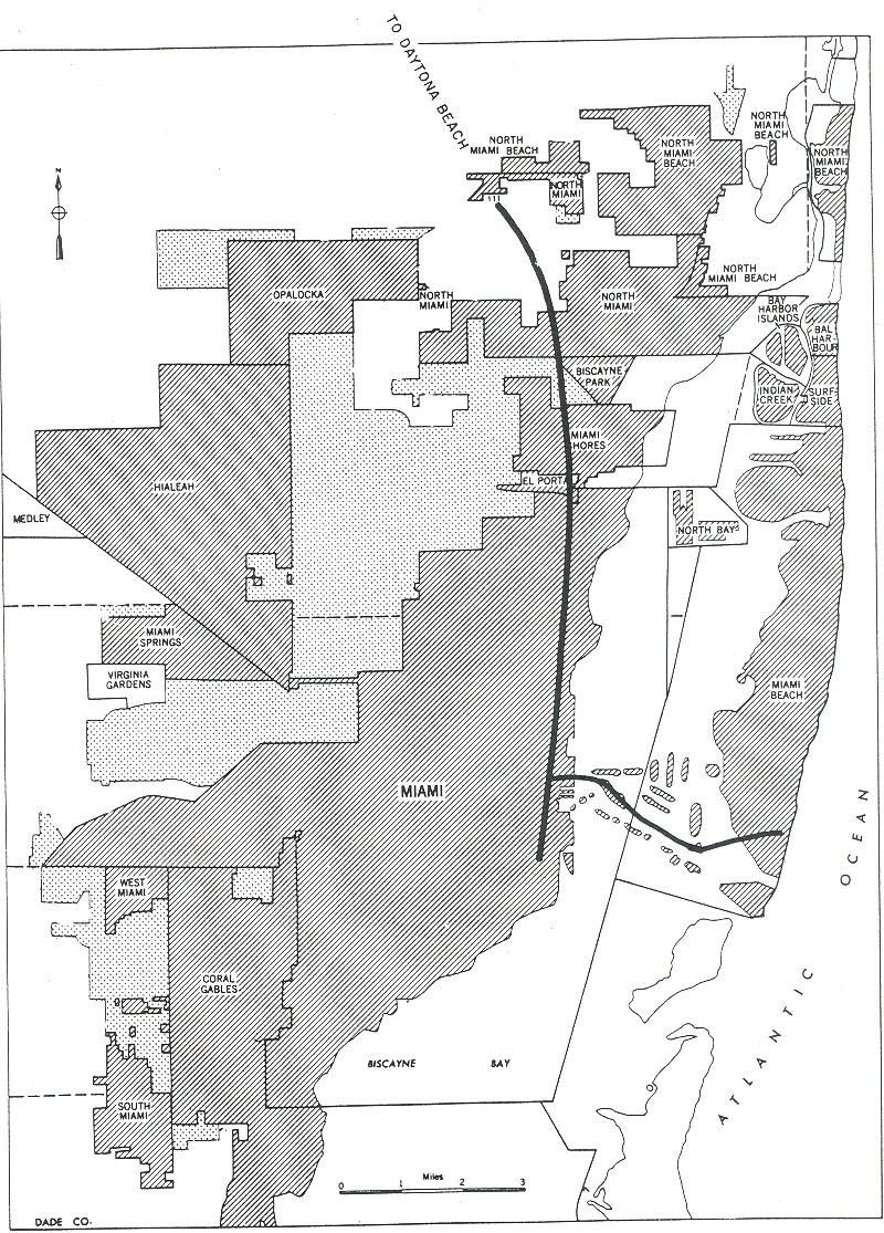 Interstates in today's terms I-95 I-395